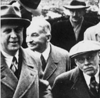 Norwegian economist Trygve J. B. Hoff (left), Ludwig von Mises (middle) at the Mont Pelerin Society in 1947